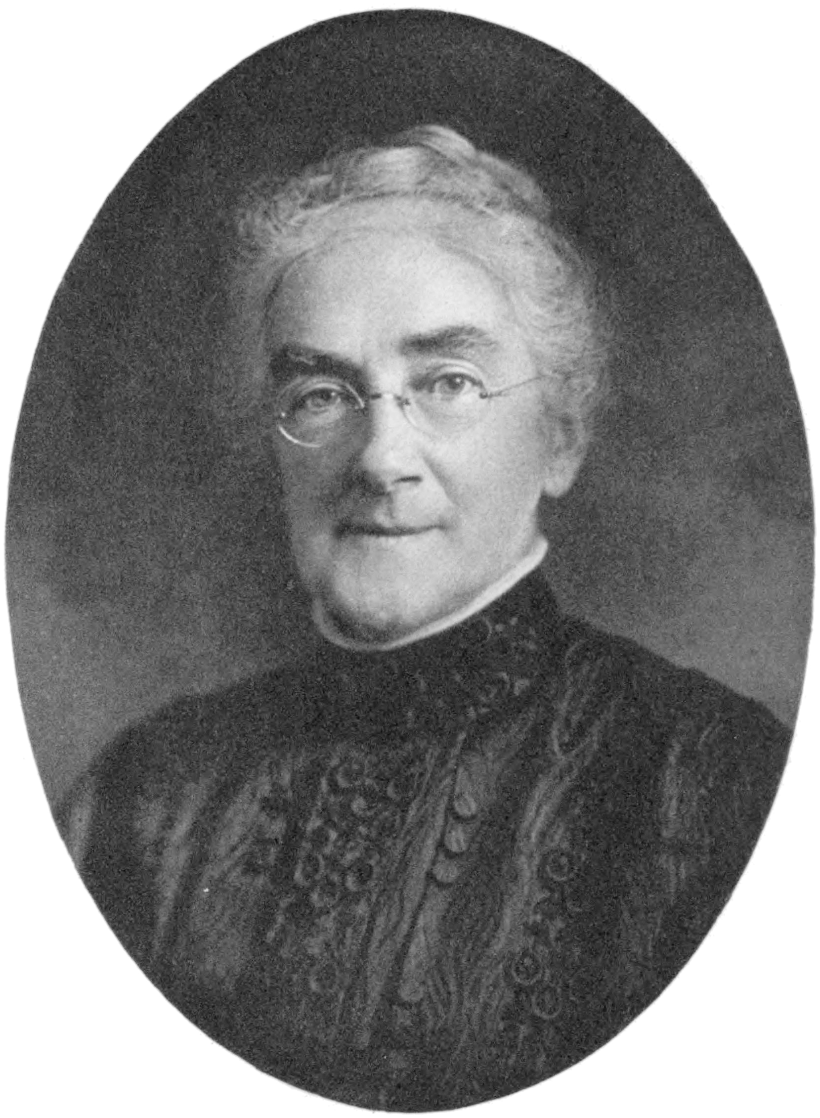 Scan of photograph/facsimile found in The Life of Ellen H. Richards by Caroline L. Hunt, London: Whitcomb and Barrows, 1912